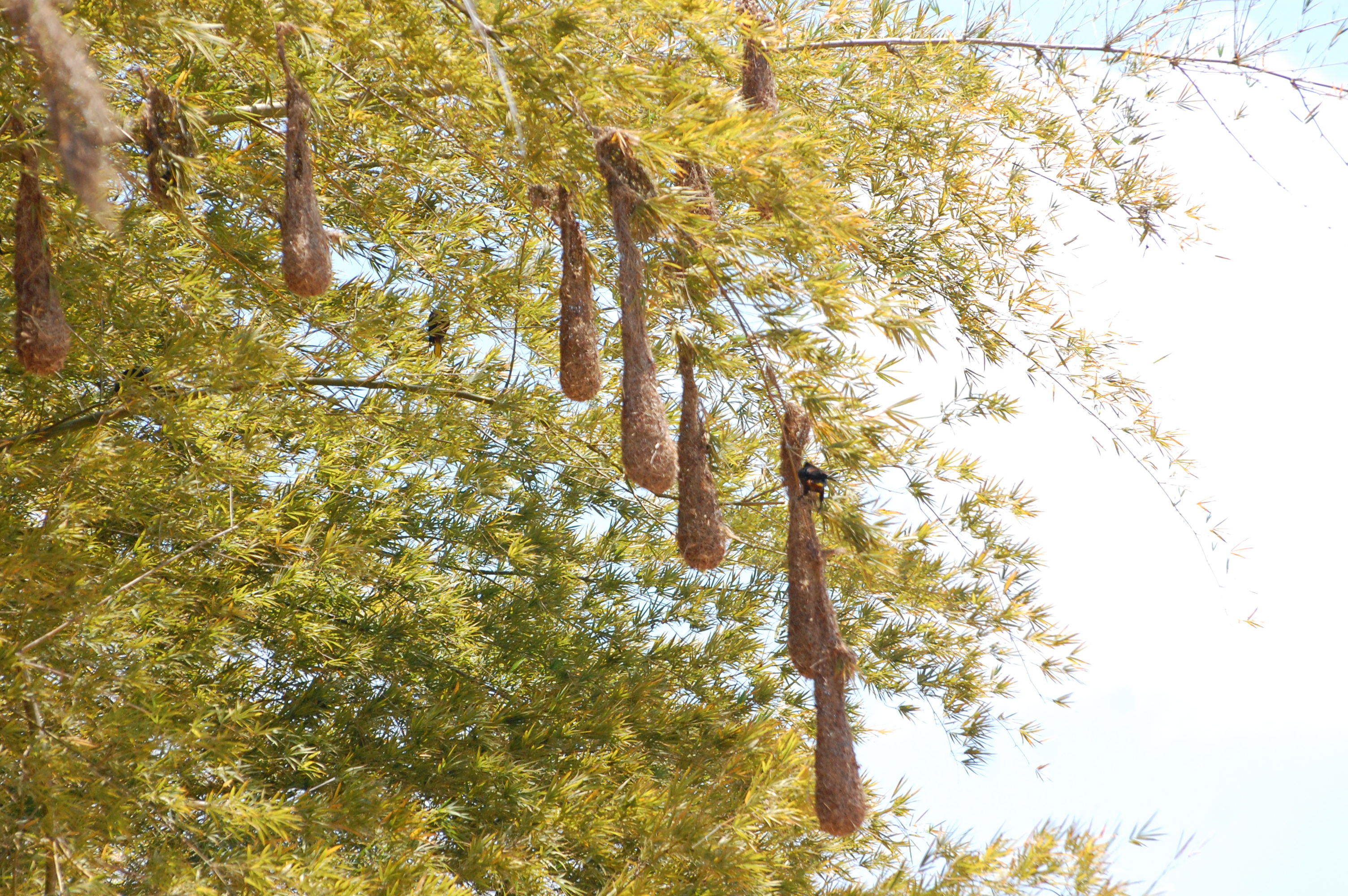 Chestnut-headed oropendola, Psarocolius wagleri, nests near El Valle de Anton, Panama